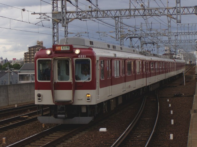 Express train for Tondabayashi on Kintetsu Minami-Osaka Line on the PL Fireworks day